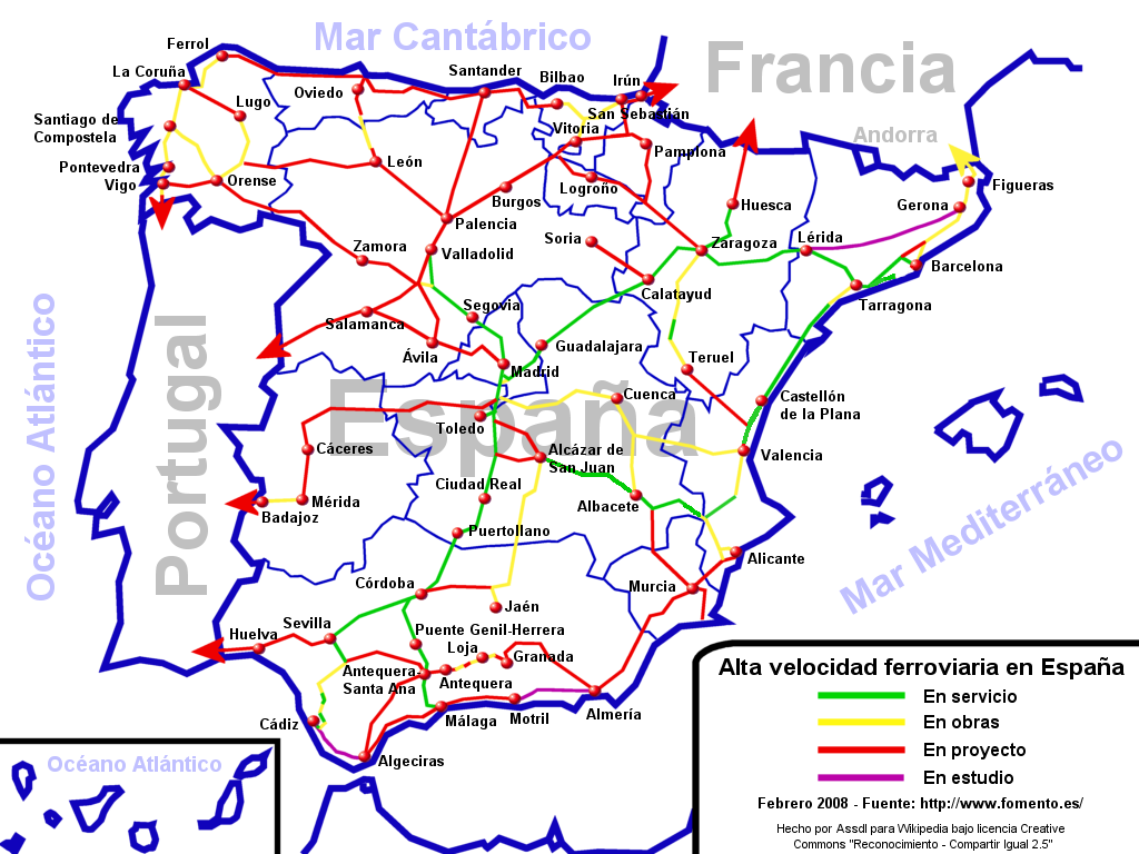 Map of the Spanish high-speed railway network. Some lines are in operation, some under construction, some are planned and some are in study (February 2008).